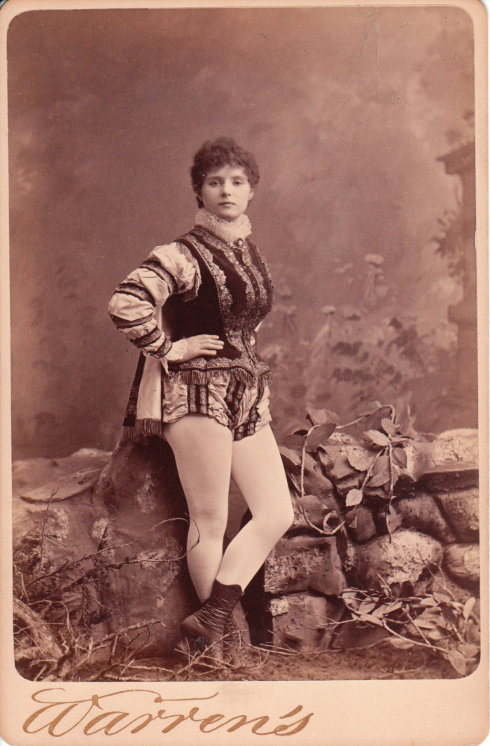 Cabinet card of Kate Everleigh (1864-1926)